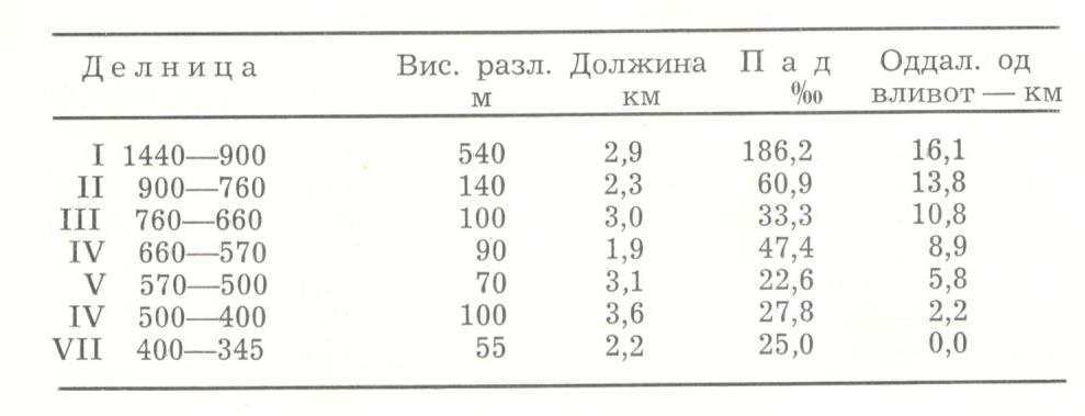 Hydrographic profile of the Dunje River in Mariovo, Macedonia